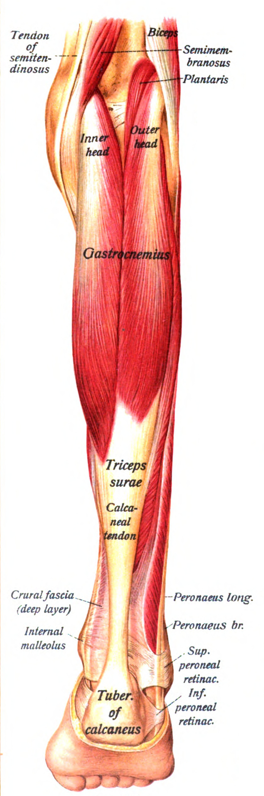 An anatomical illustration from the 1909 edition of Sobotta's Atlas and Text-book of Human Anatomy with English terminology.